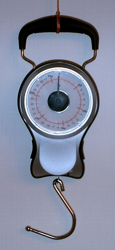 Spring scale